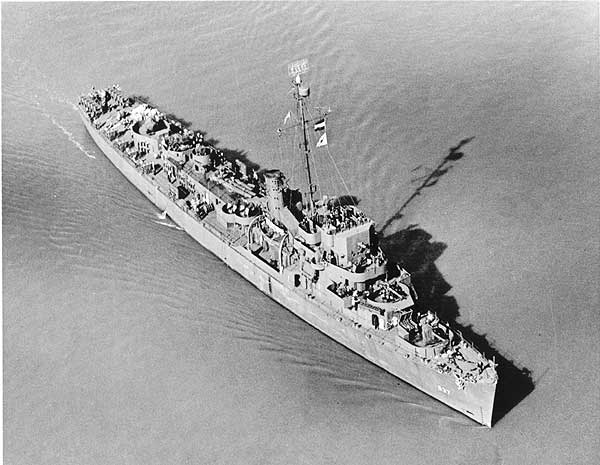 Aerial photograph of the U.S. Navy destroyer escort USS Bowers (DE-637) underway off Alameda, California (USA), on 5 February 1945.